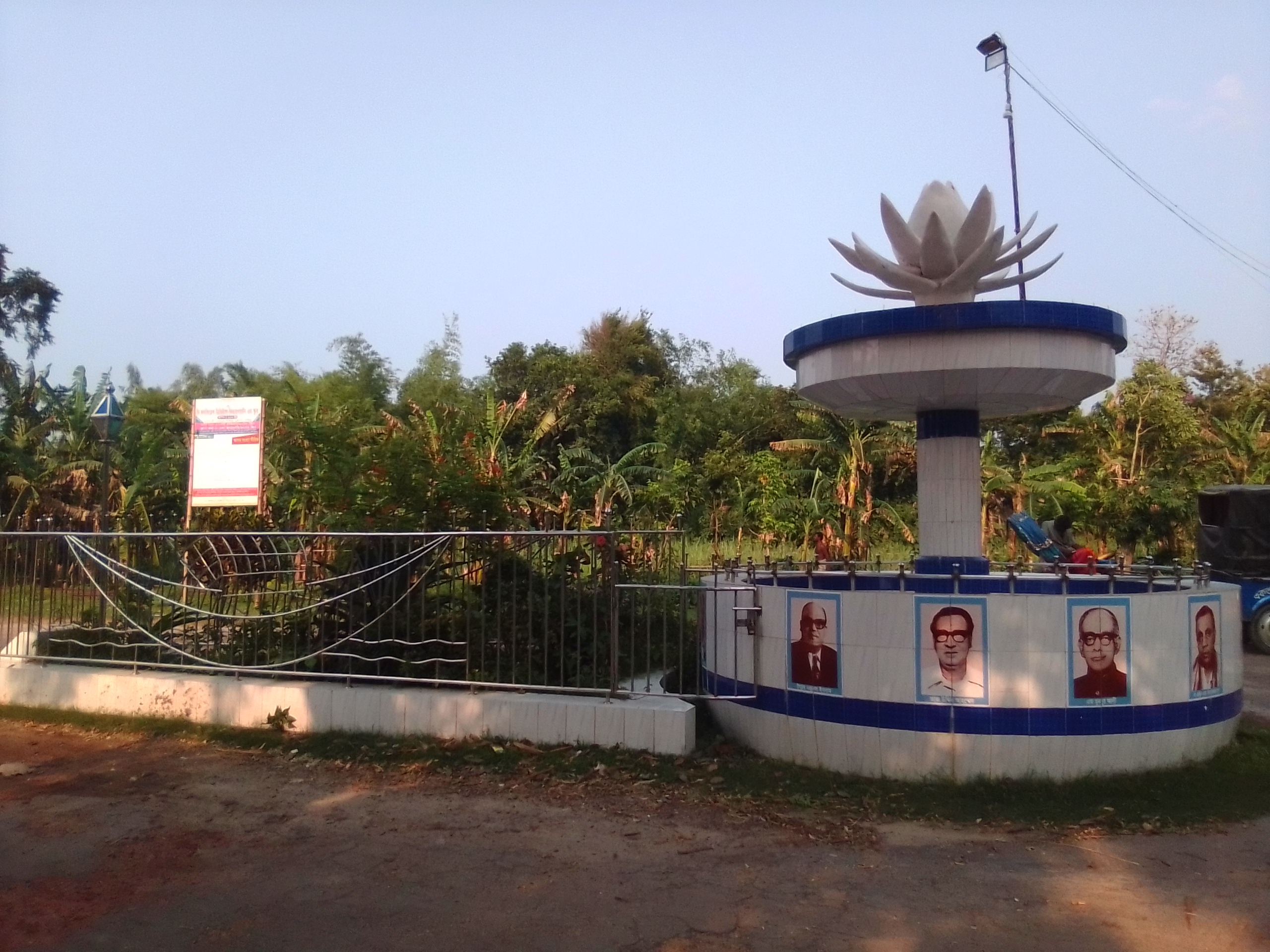 শাপলা প্রতীকের নিচে জাতীয় চার নেতার প্রতিকৃতি